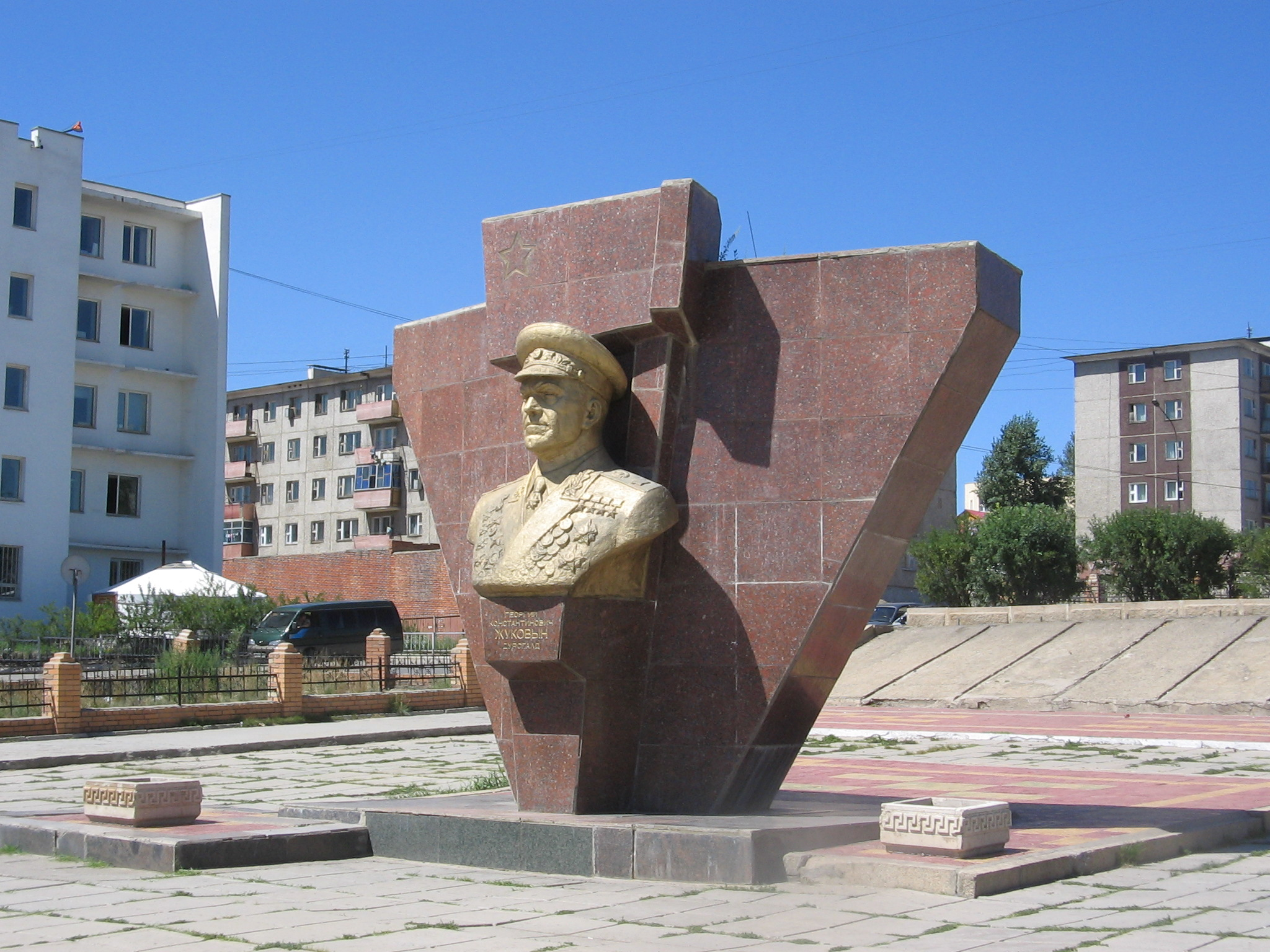 Monument to Georgy Zhukov, Ulan Bator, Mongolia